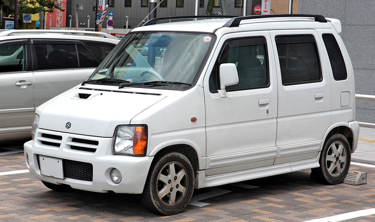 First generation Suzuki Wagon R Wide 1.0 Turbo ( Japan spec Wagon R+ )